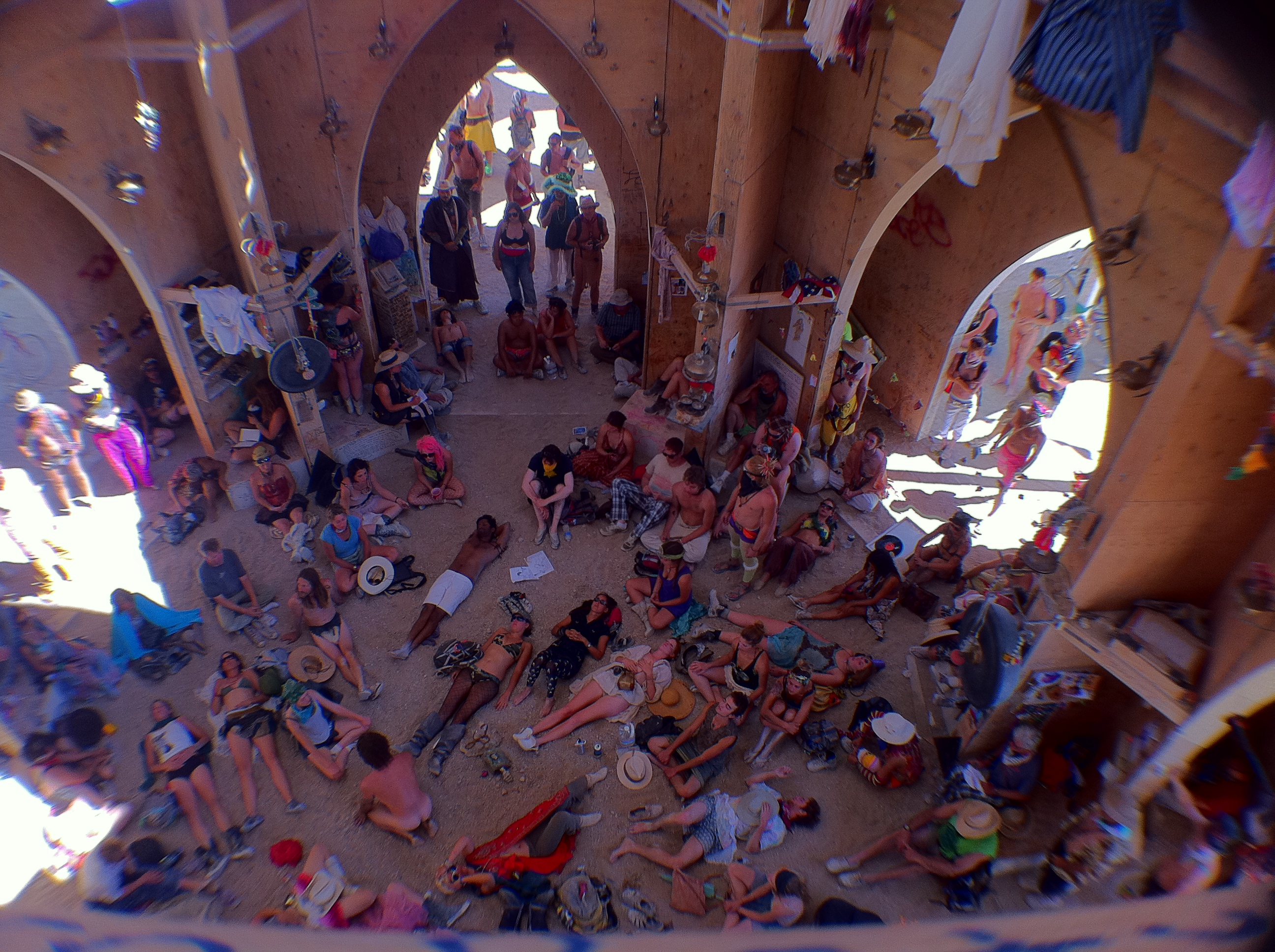 Burning Man 2011 Shot by Victor Grigas